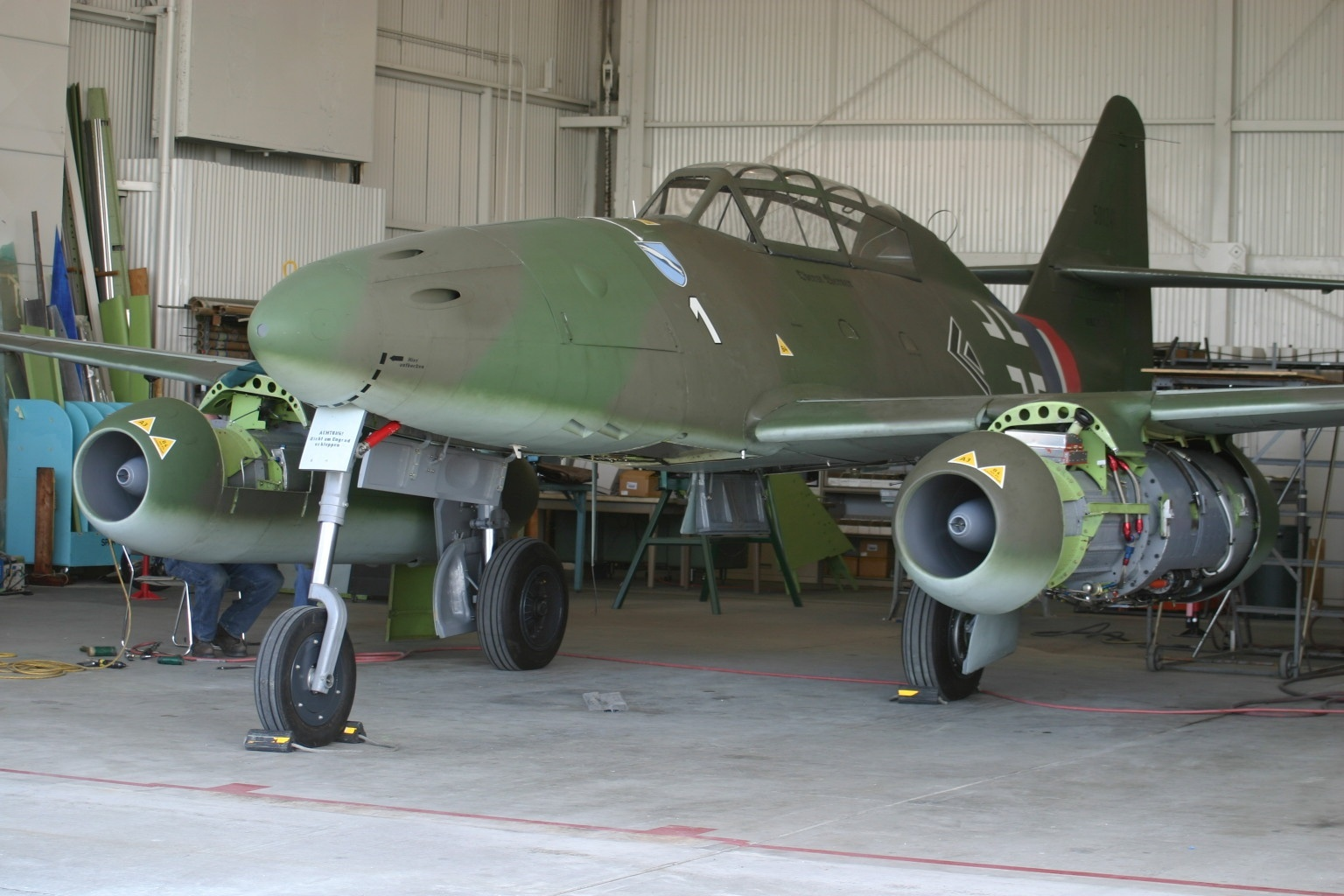 Me 262B-1c 501241 owned by Collings Foundation at Everett Paine Field